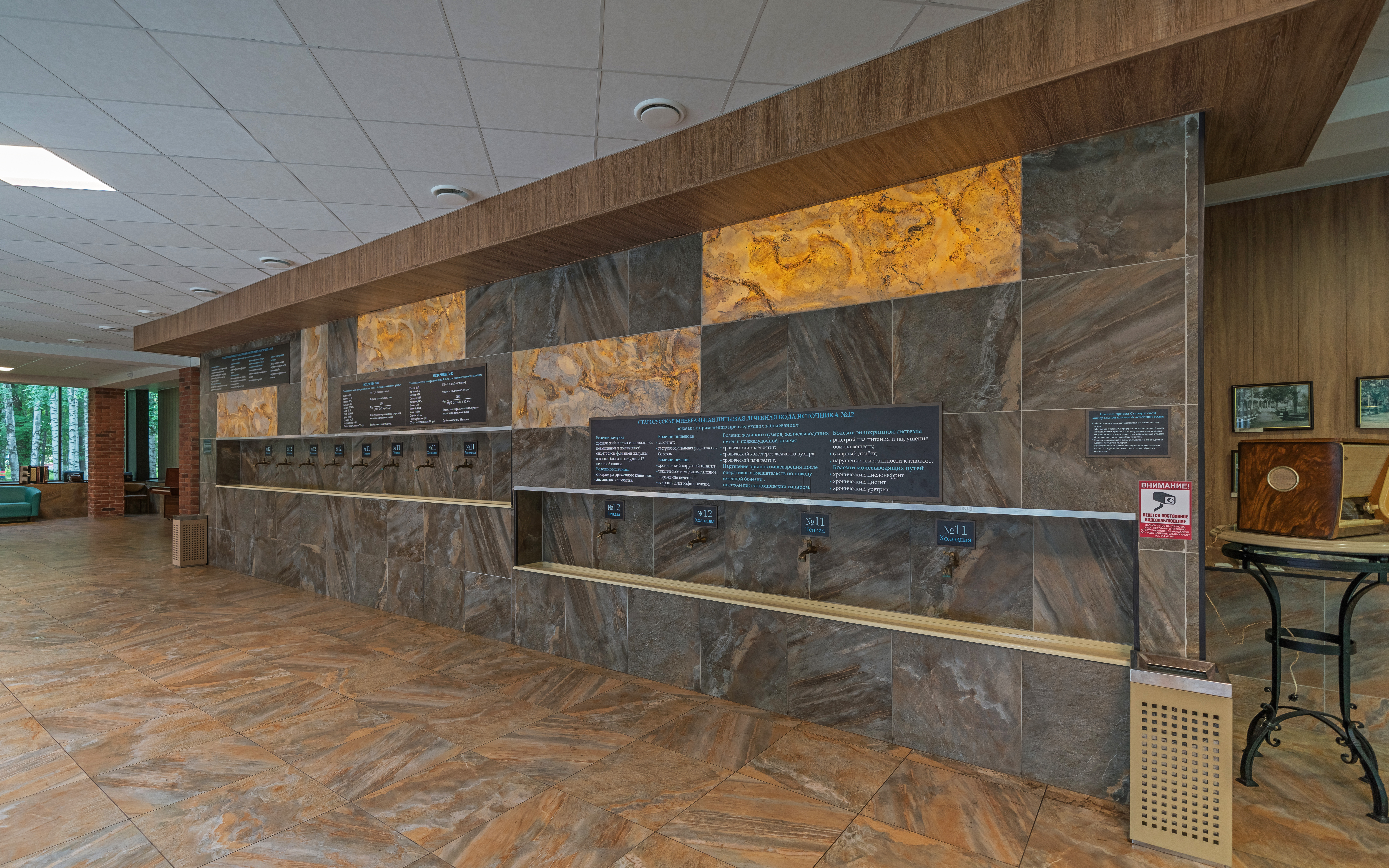 Pump house of the Resort (interior) in Staraya Russa, Novgorod Oblast, Russia